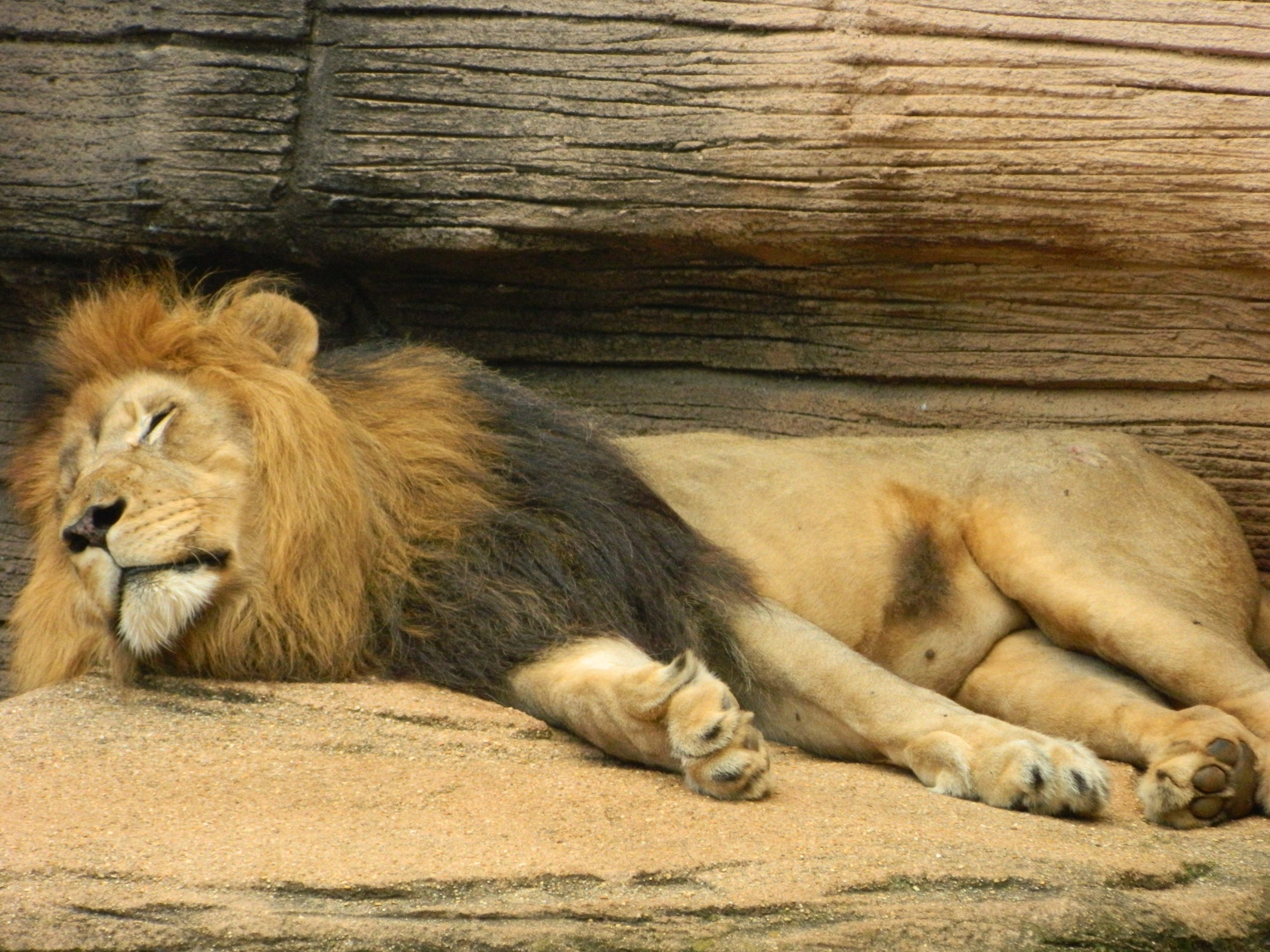 A picture of a male lion sleeping at Riverbanks Zoo.